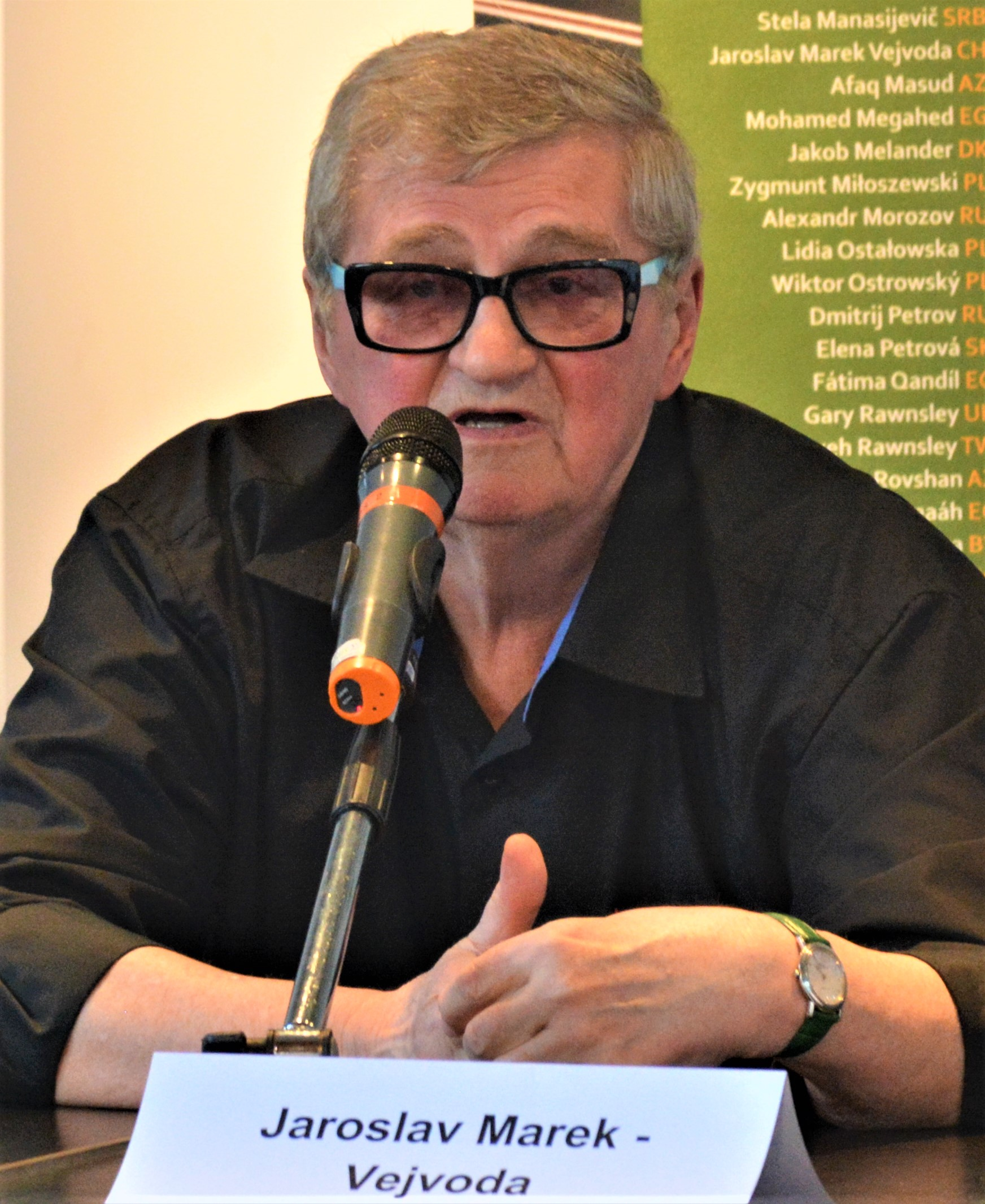 Jaroslav Vejvoda, Czech writer